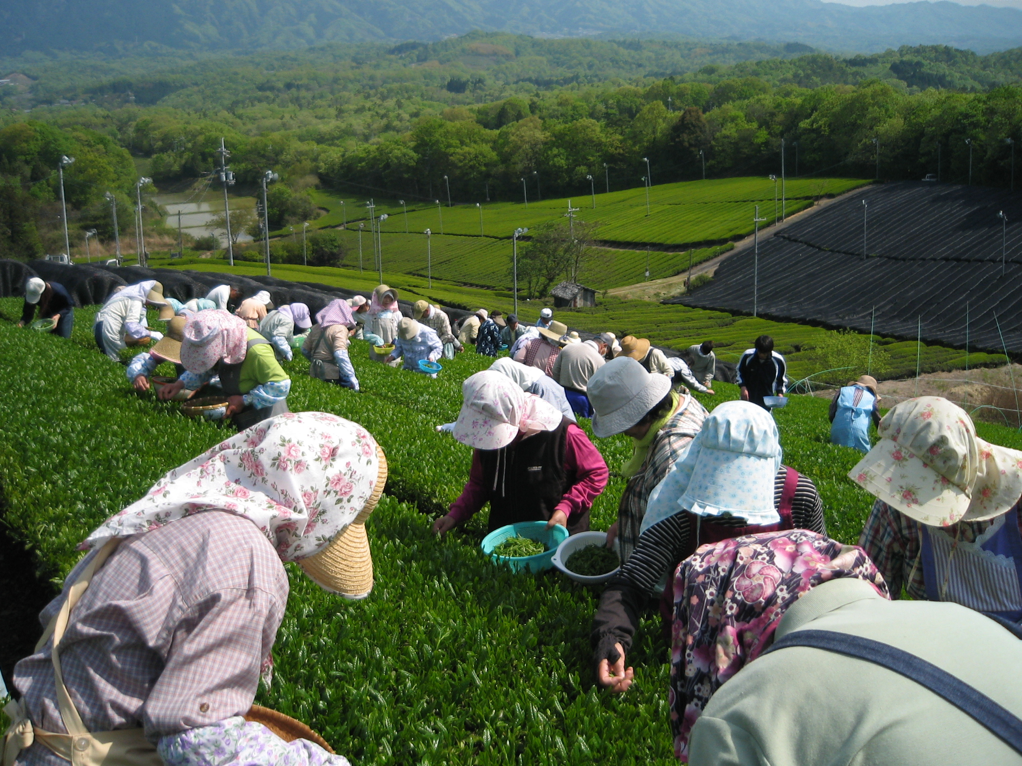 Tea picking in Minamiyamashiro, Kyoto pref., Japan.